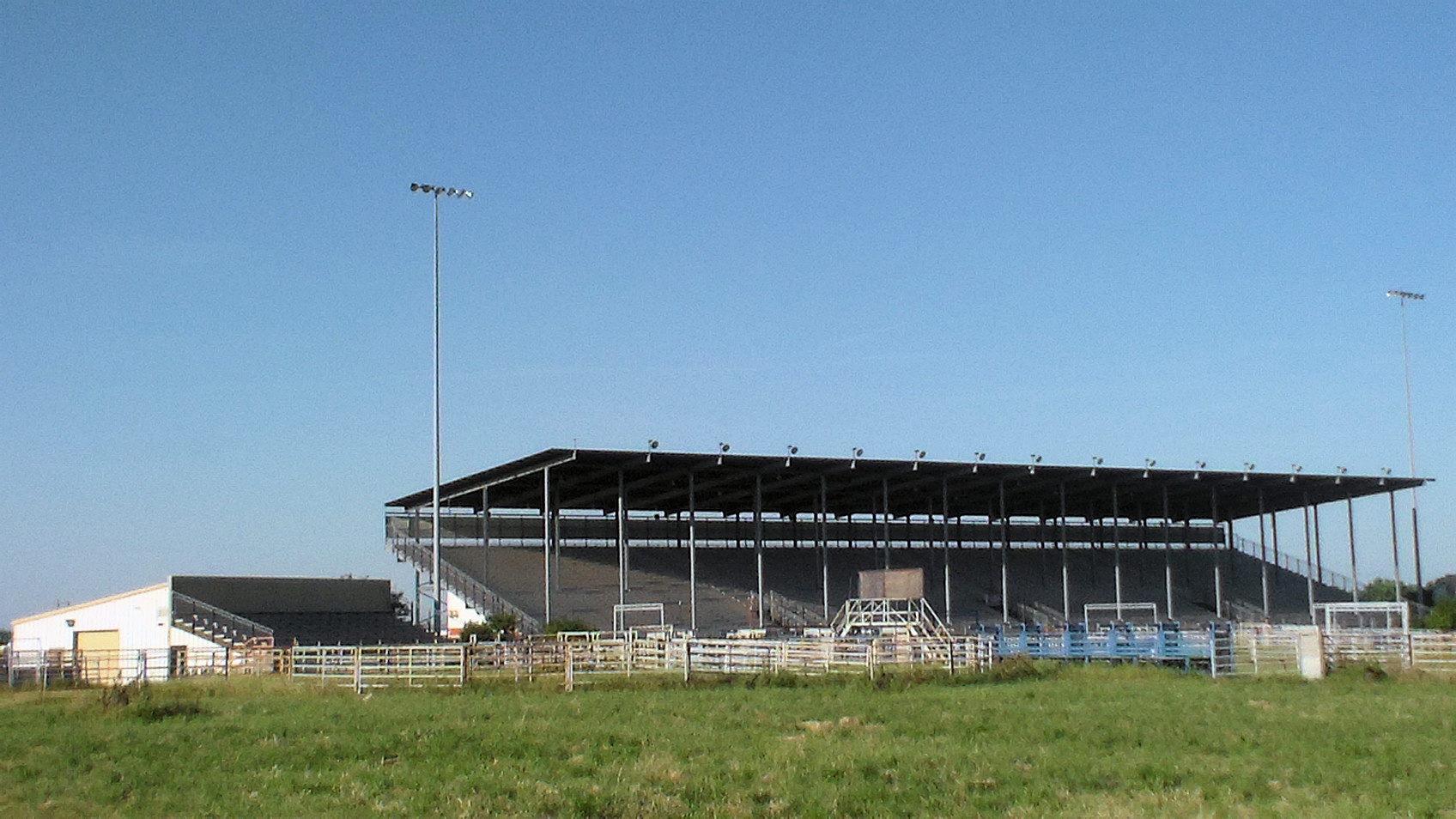 Heart of Oklahoma Expostion Center in Shawnee, Oklahoma